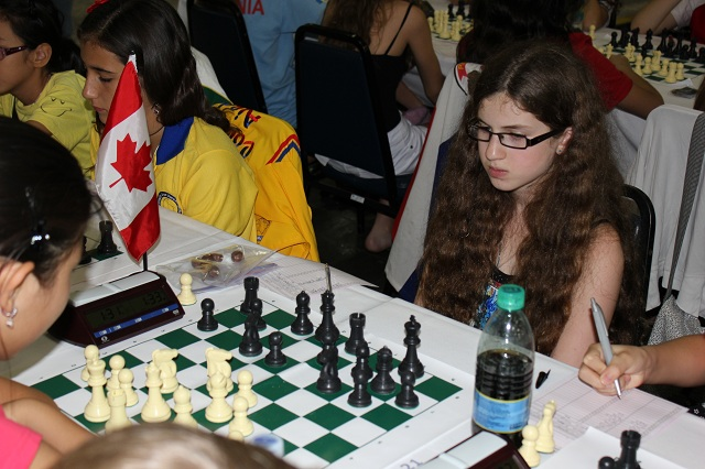 Melissa Giblon competing at the WYCC in 2011.